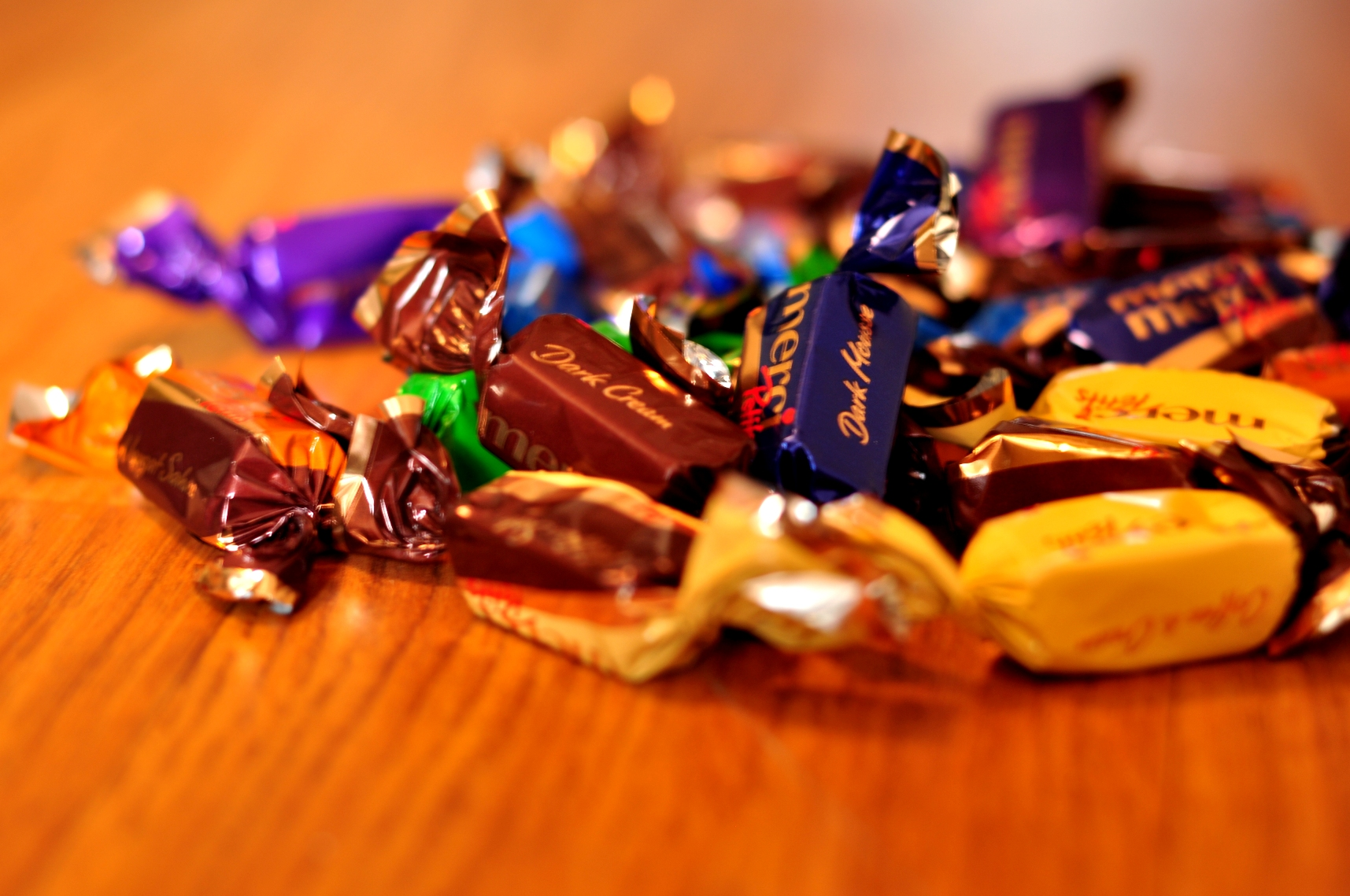 Merci,a brand of German chocolate candy manufactured by the German company August Storck KG